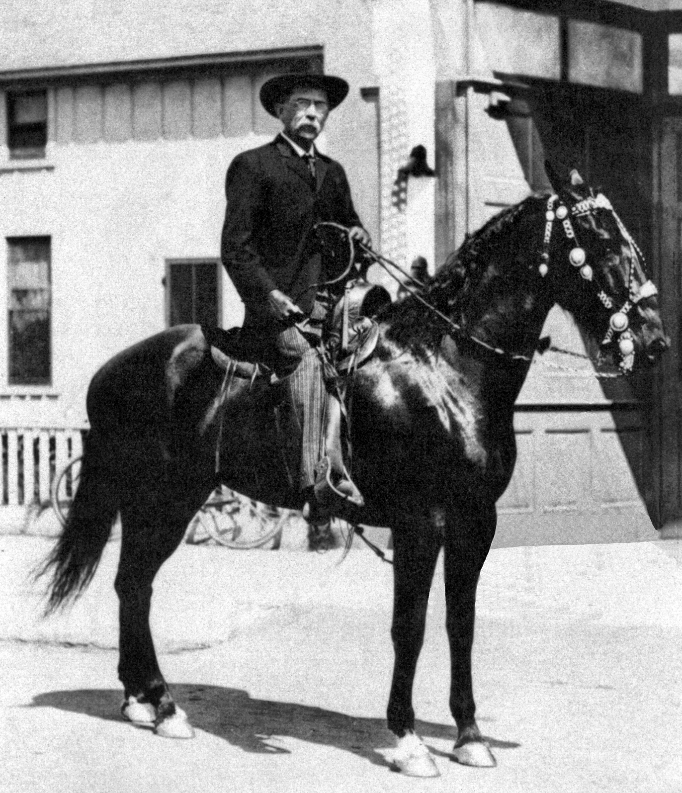 There are no known copyright restrictions on this image. All future uses of this photo should include the courtesy line, "Photo courtesy Orange County Archives." Comments are welcome after reading our Comment Policy.